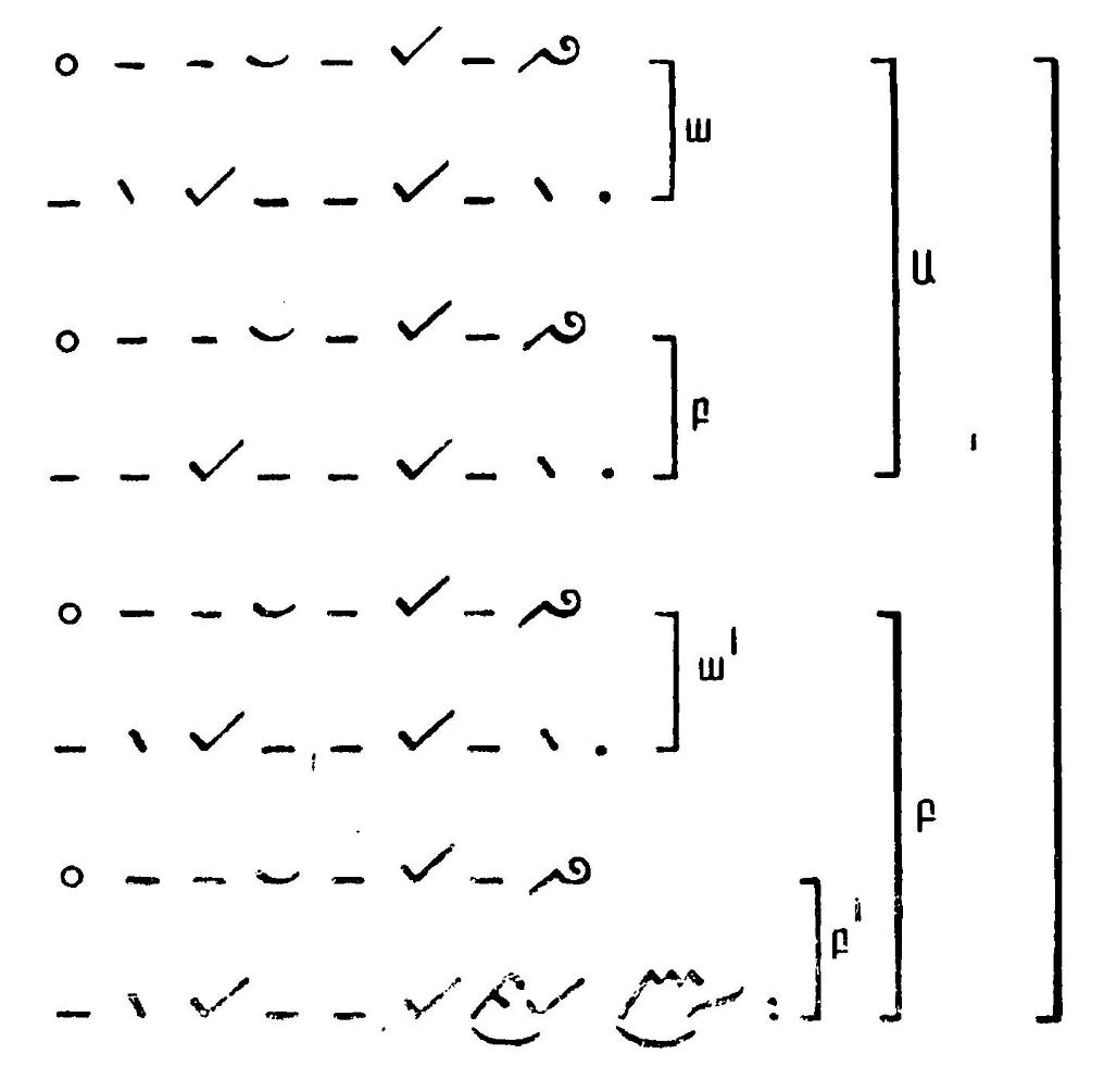 This file got from "Soviet Armenian Encyclopedia" with "Creative Commons BY-SA 3.0" License.